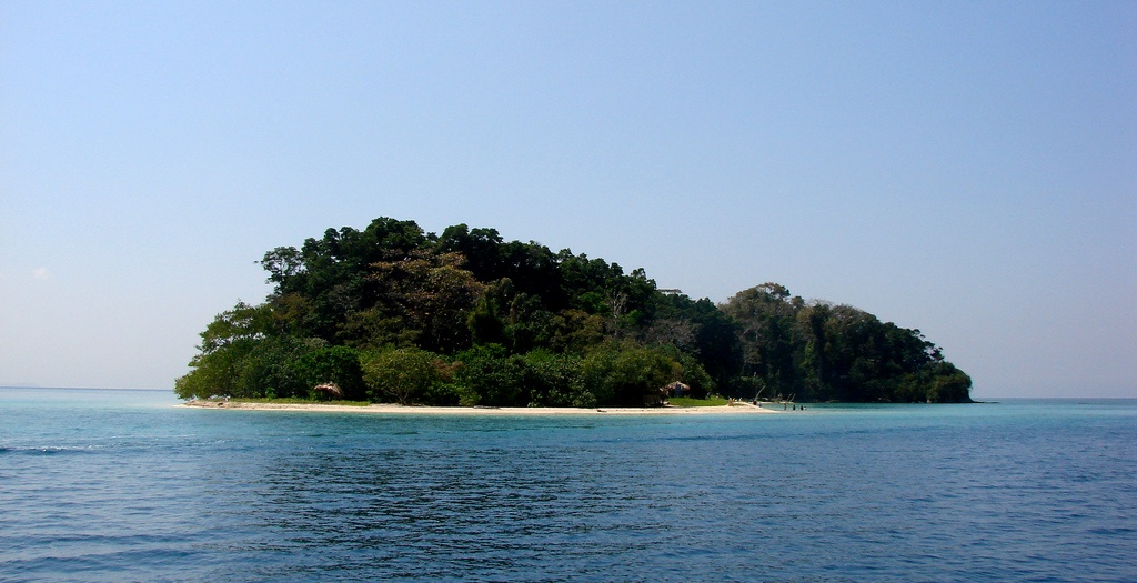 Jolly Boys Island in Mahatma Gandhi Marine National Park, India